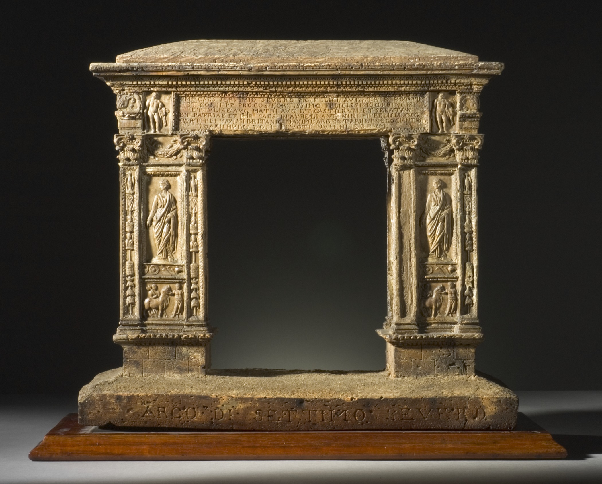 Germany, circa 1792-1795 Architecture; Architectural Models Cork, tinted stucco, and sand on modern wood base 14 1/2 x 16 1/4 x 7 3/4 in. (36.83 x 41.28 x 19.69 cm) without base Purchased with funds provided by Cary Grant by exchange (M.2004.33) European Sculpture